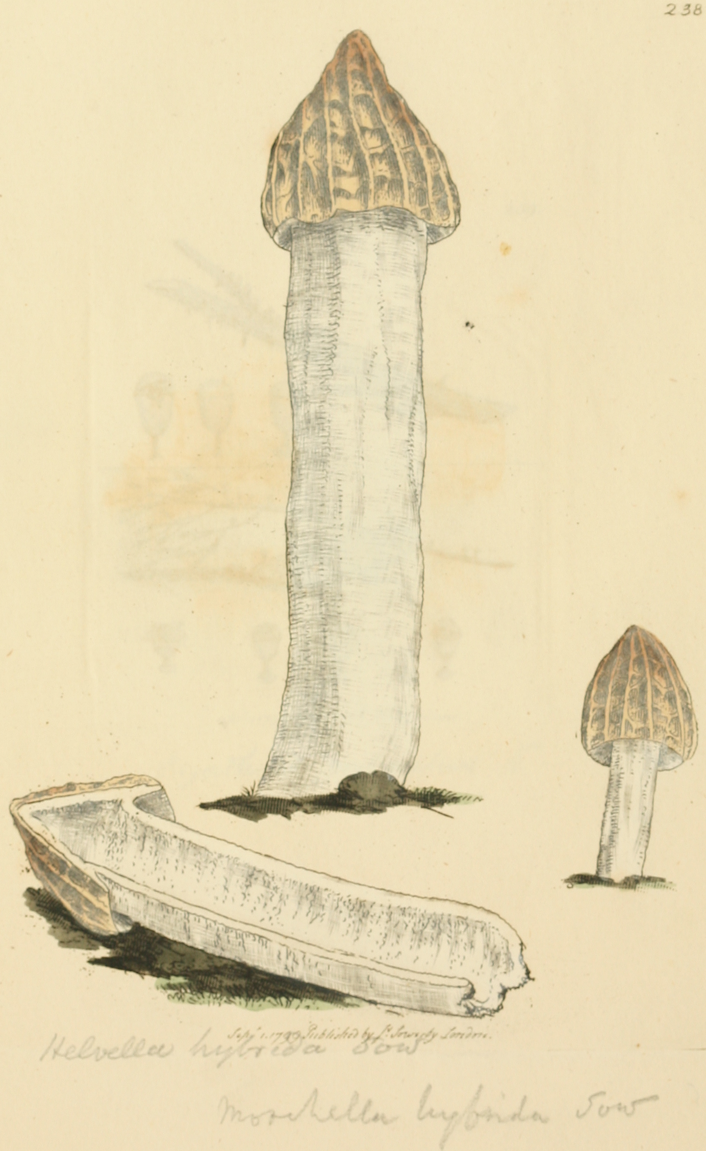 This is a plate from James Sowerby's Coloured Figures of English Fungi or Mushrooms.